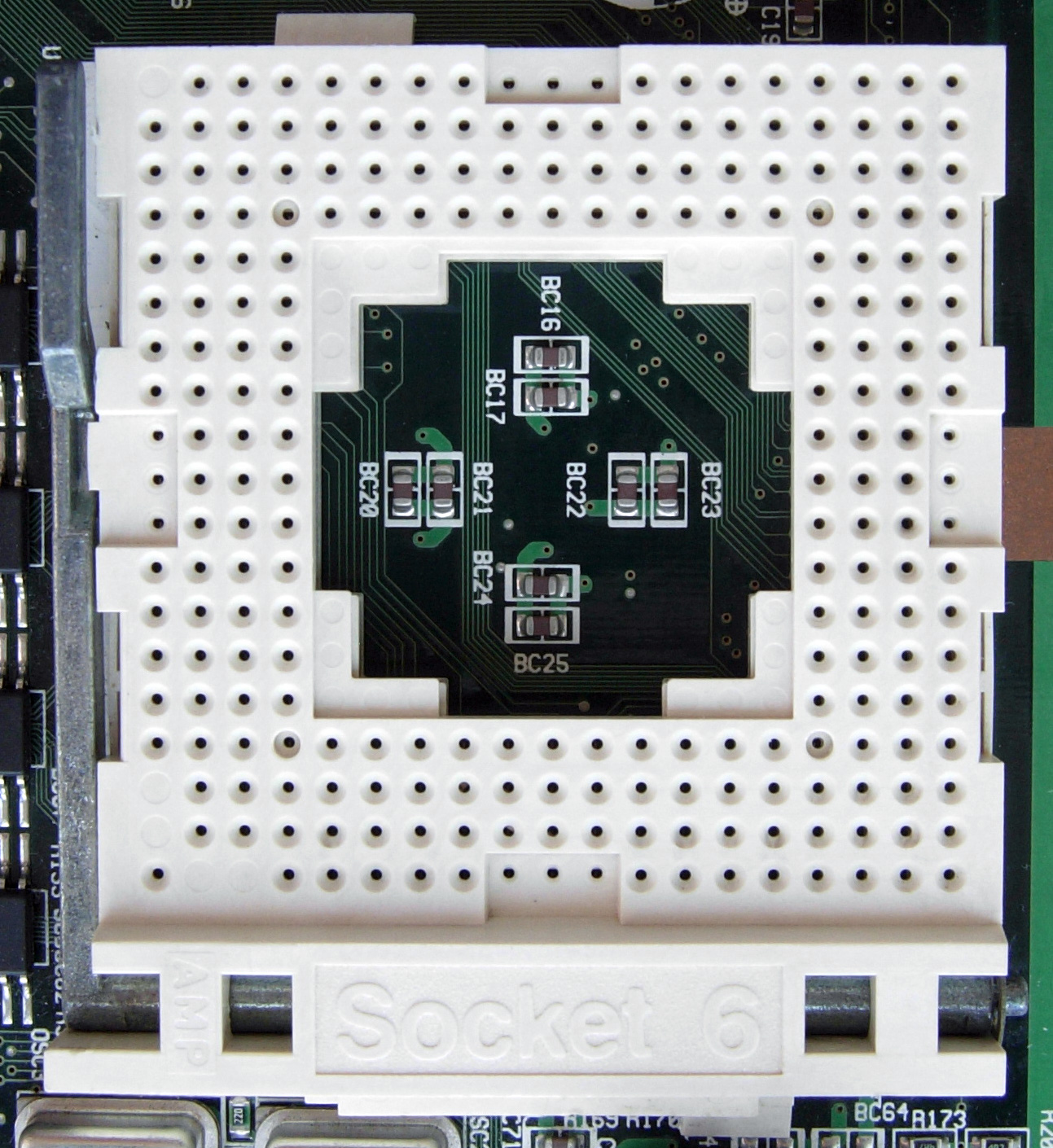 Intel Socket 6 CPU Socket on an NEC PC-9821Xp mainboard.